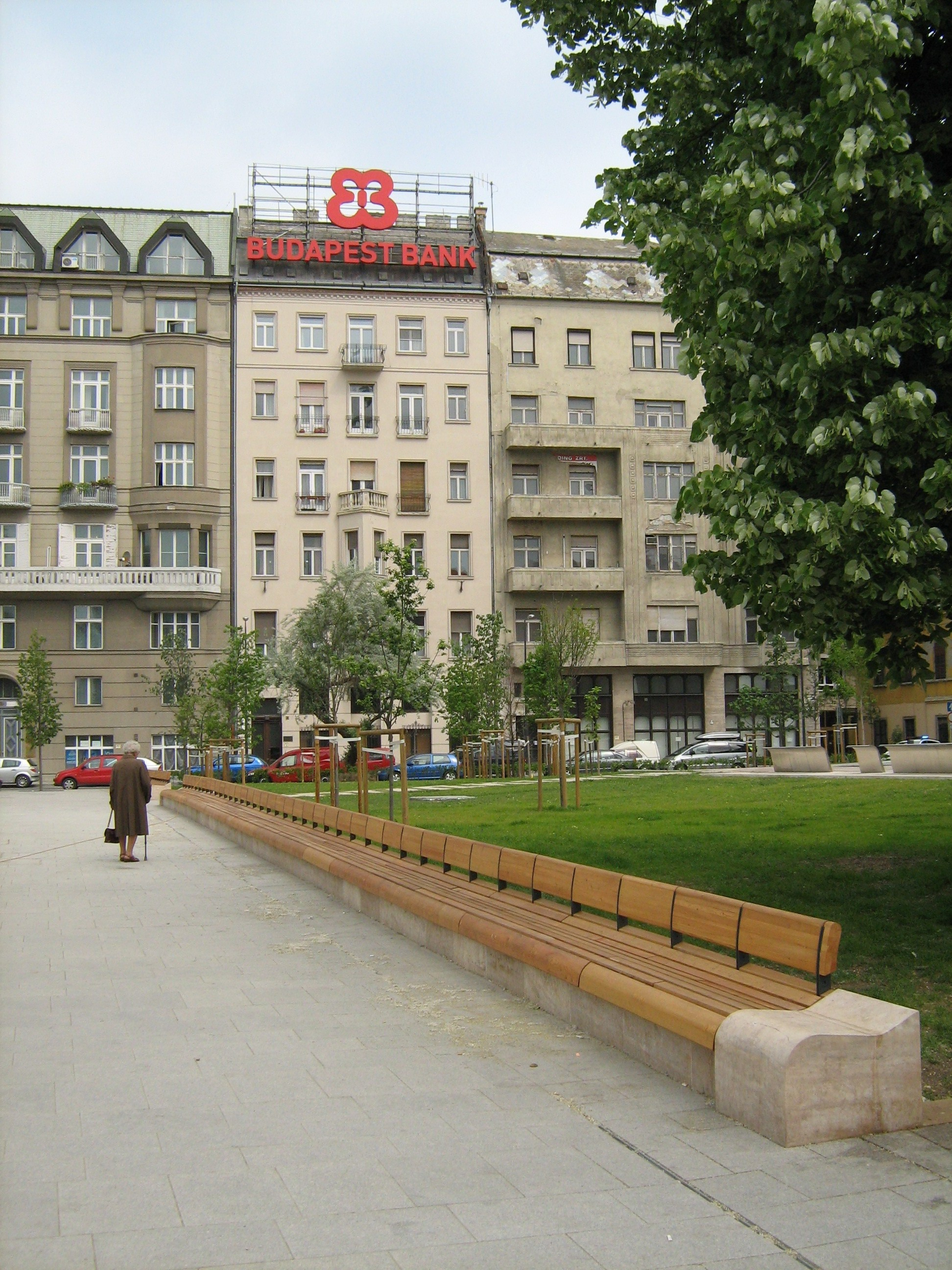 Very long bench at the Március 15. tér (March, 15. Square) near the Elizabeth-bridge over Donau in Budapest, Hungary. 14. maj 2011.